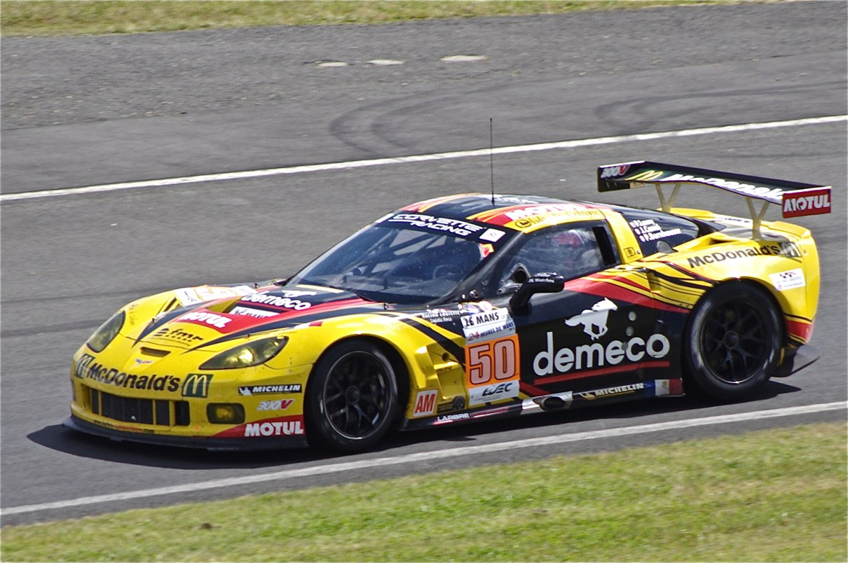 LMGTE Am class winner, Le Mans 24 Hours 2012